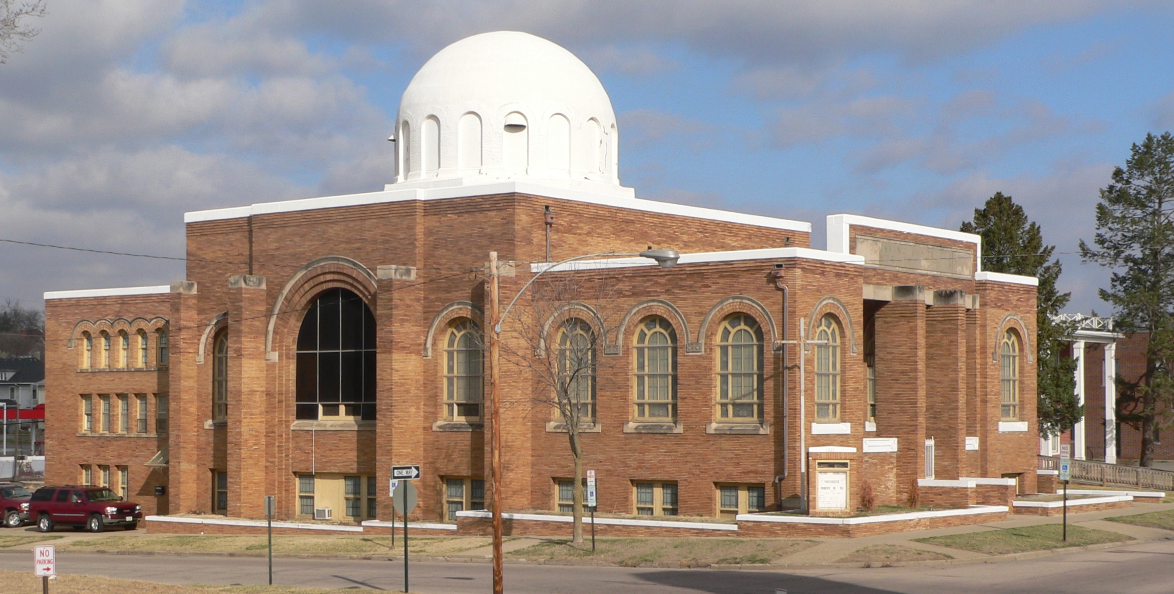 Iglesia Evangelica Pentecostes Principe de Paz, originally First Congregational Church, and later Sioux City Baptist Church; located at 1301 Nebraska Street in Sioux City, Iowa. Seen from the southeast.